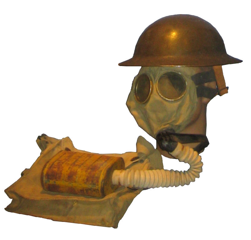 US WWI Gas mask with bag (in coll. Mémorial de Verdun)